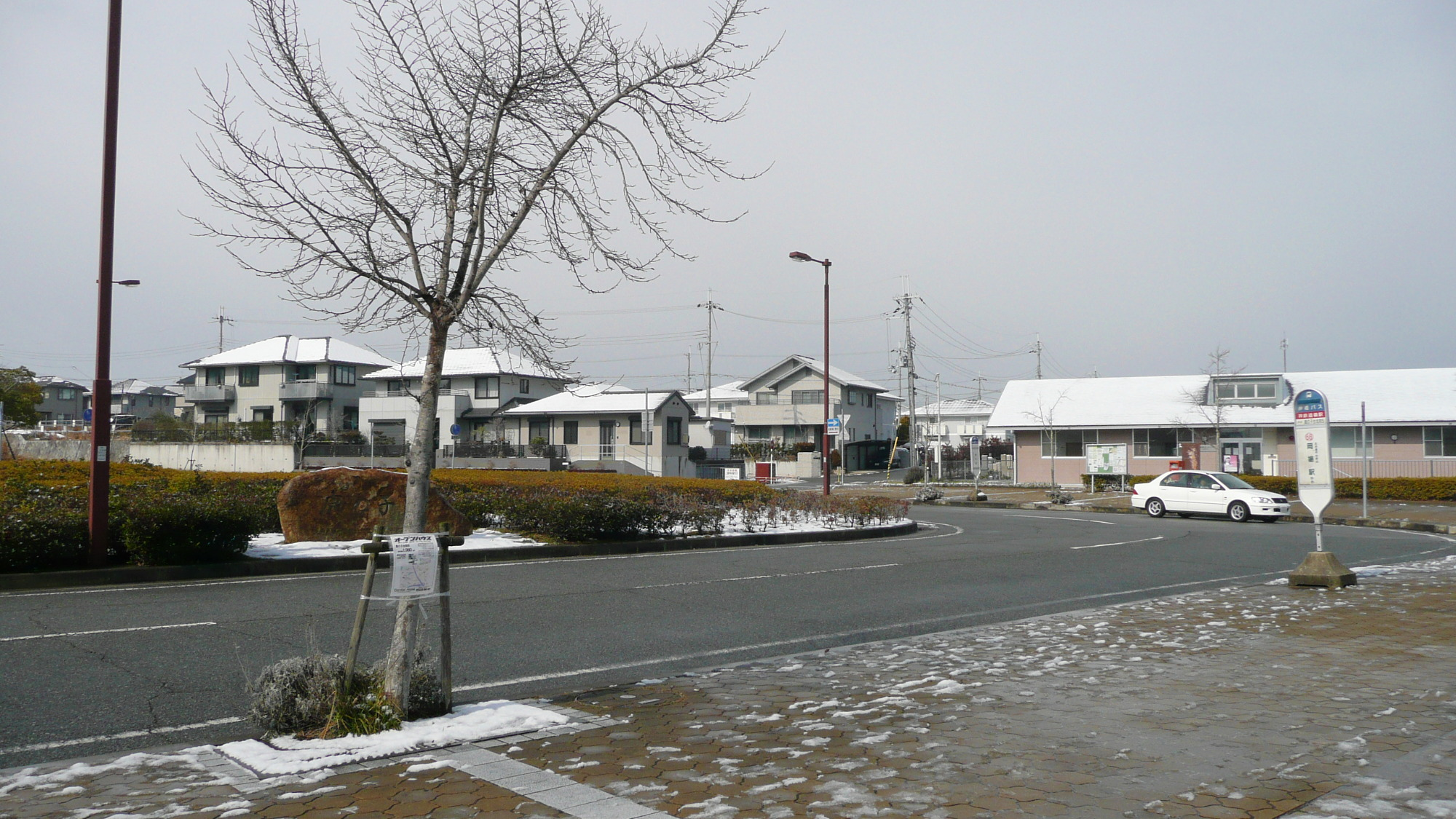 Kobe Electric Railway Shintetsu Dojo Station west plaza